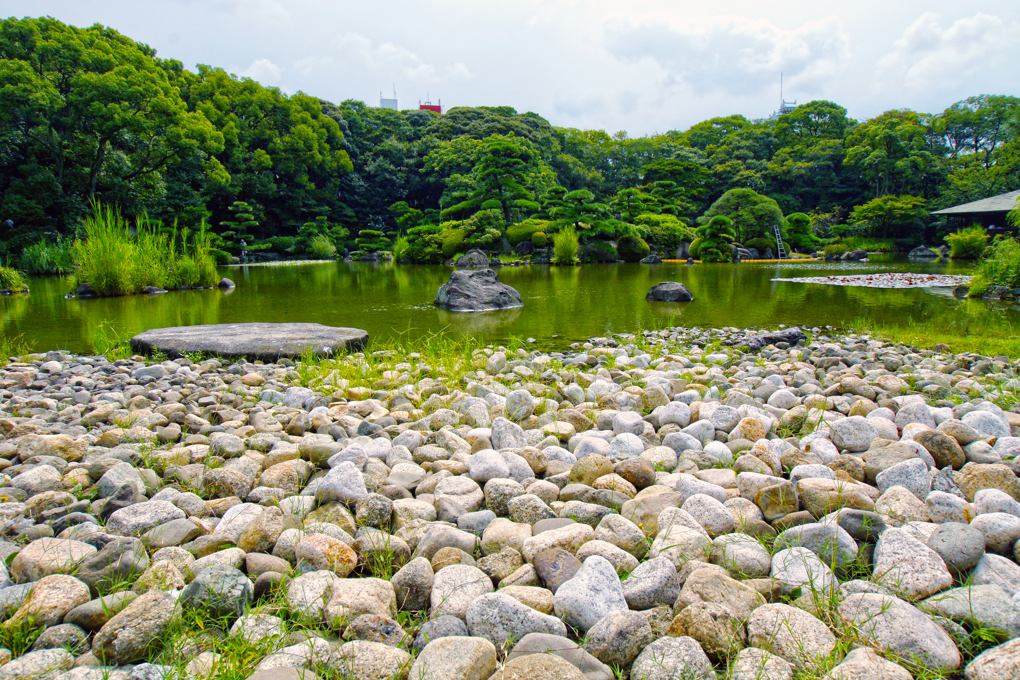 Keitakuen in Tennoji-ku, Osaka, Osaka prefecture, Japan